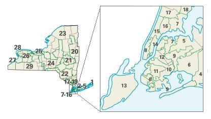 Image adapted from US fed gov't source Category:Congressional districts of New York Category:New York maps